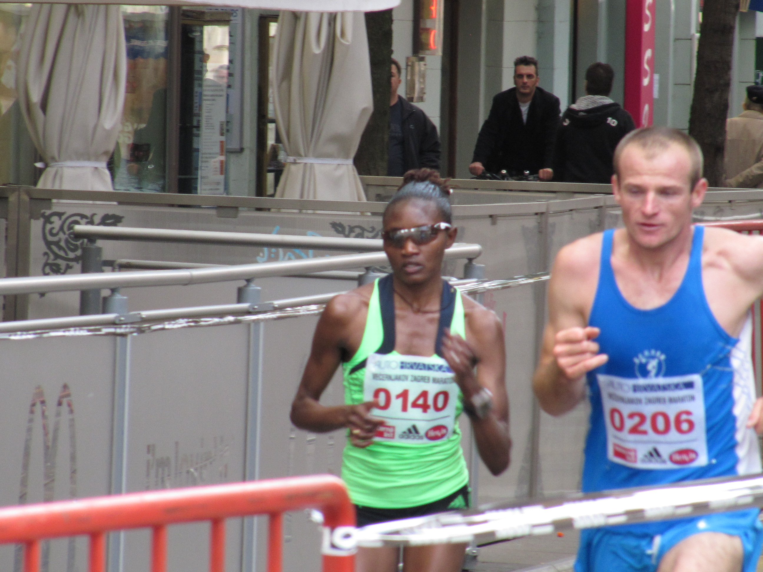 Lucia Kimani of Bosnia and Herzegovina and Zoran Žilić of Croatia at the 2011 Zagreb Marathon.